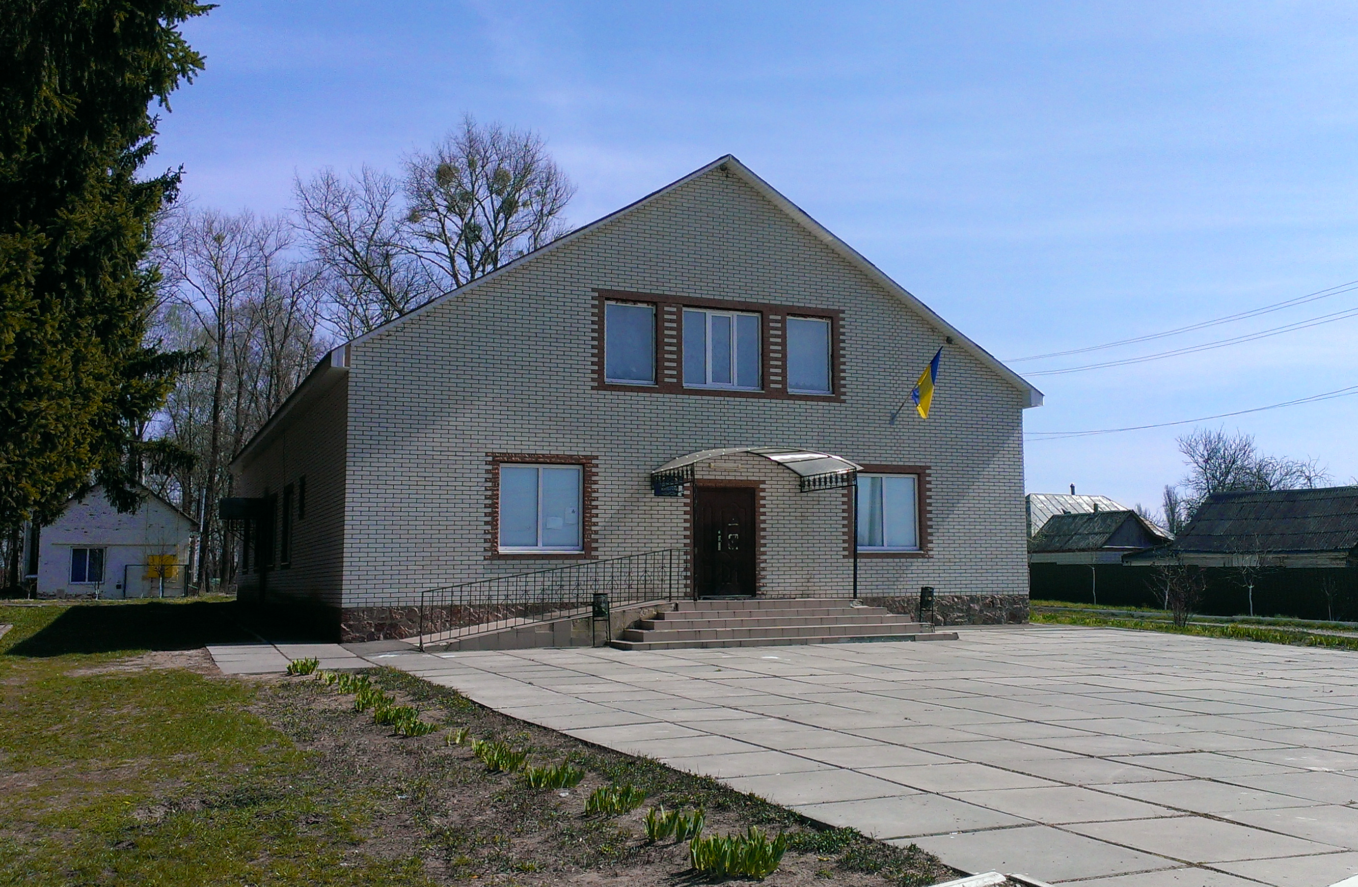 House of Culture in Nebelytsia